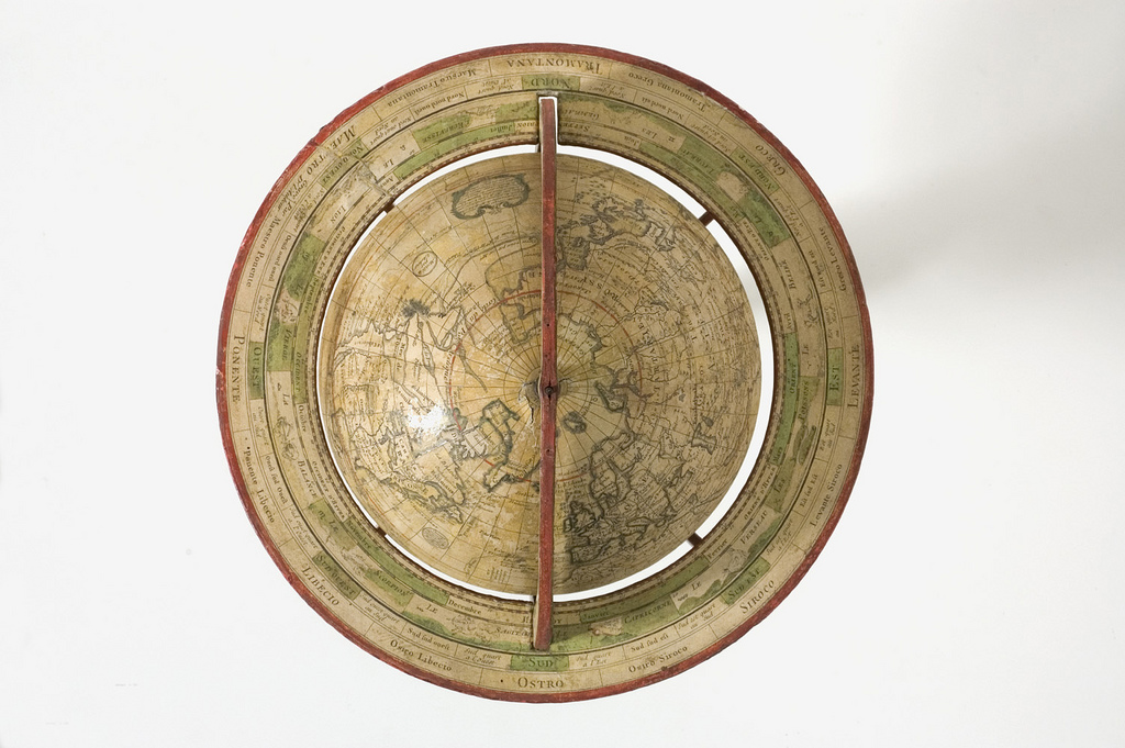 Top view of 1765 de l'Isle globe A 1765 de l'Isle globe, showing top view. Collection of the Minnesota Historical Society.